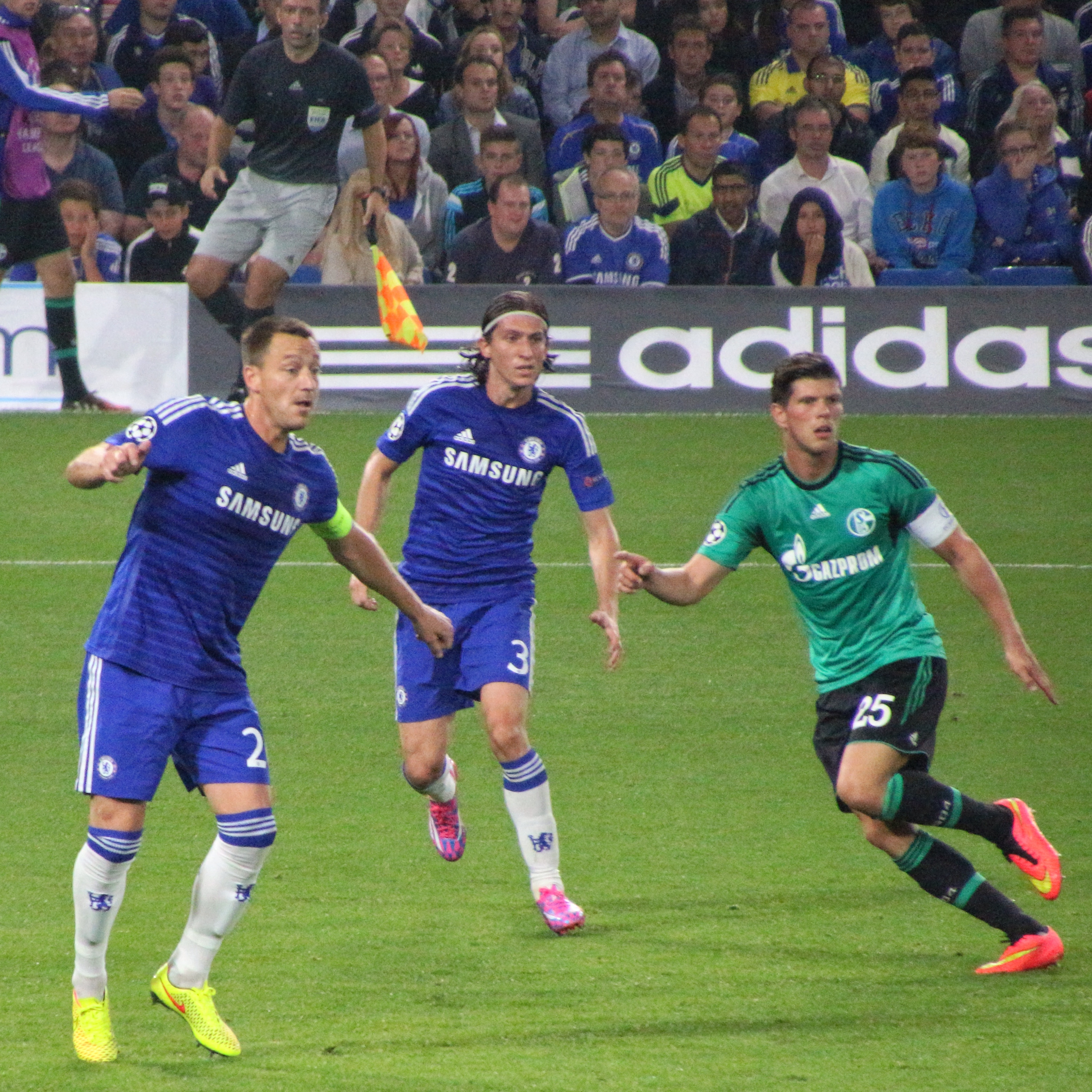 Champions League match between Chelsea and FC Schalke 04 at Stamford Bridge on 17 September 2014.